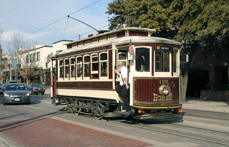 Car 122 of the McKinney Avenue Transit Authority (Dallas, Texas) is ex-Porto (Portugal) car 122 and was built in 1909 by the J.G. Brill Company, of Philadelphia. On the McKinney Avenue line (or "M-Line"), car 122 was given the name "Rosie". The trolley is southbound on McKinney Avenue just north of Routh Street.